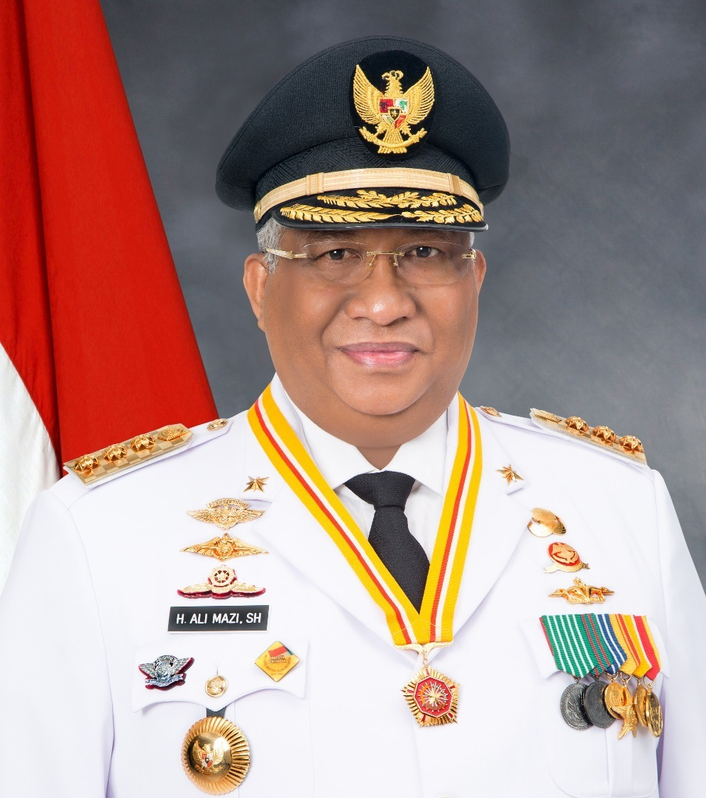 Ali Mazi as Governor of South East Sulawesi for secont period